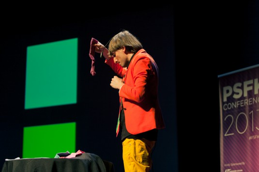 Colour Concert